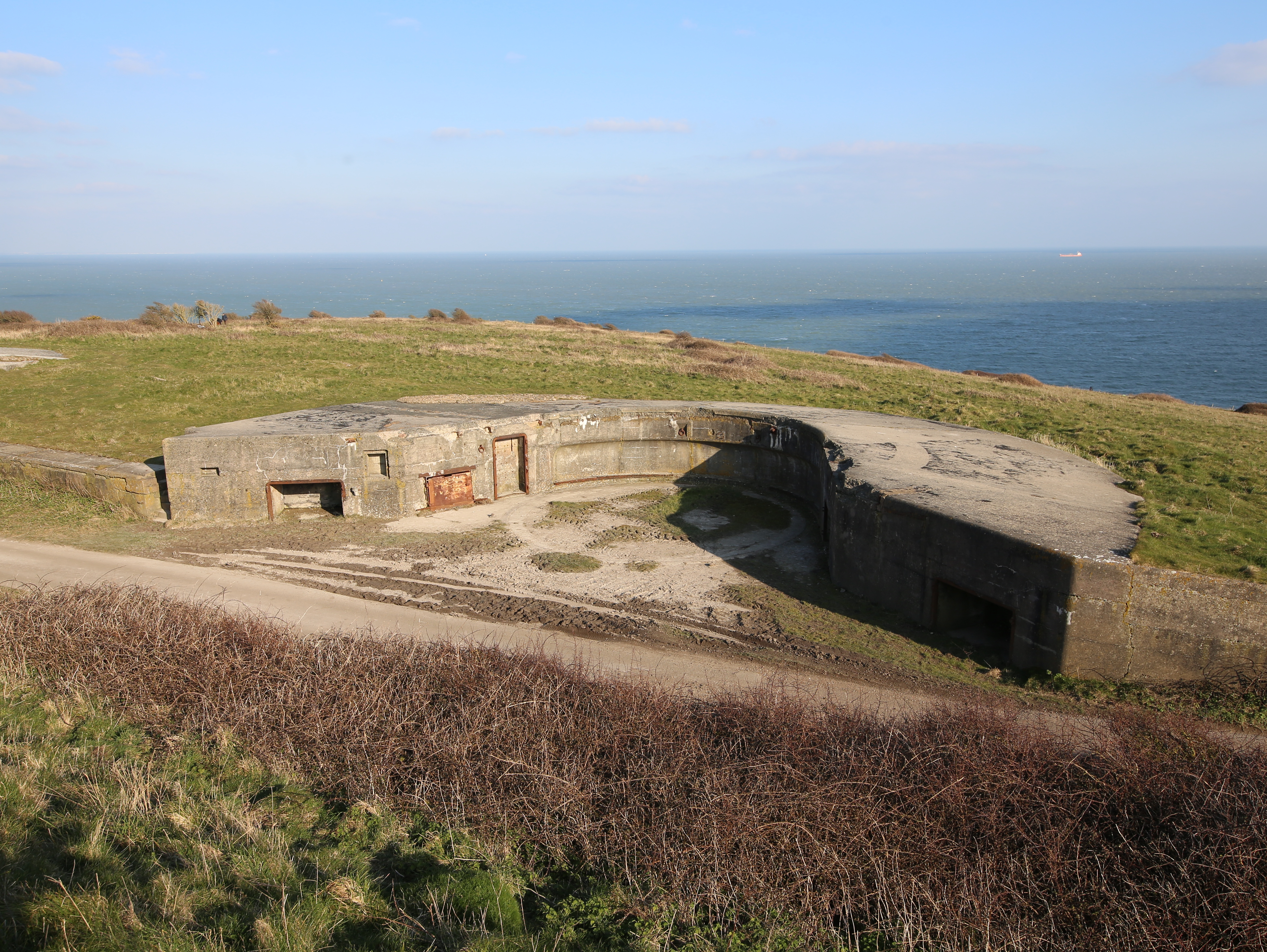 Photo of one of the 9.2-inch Breech Loading Gun positions in Culver Battery in 2016